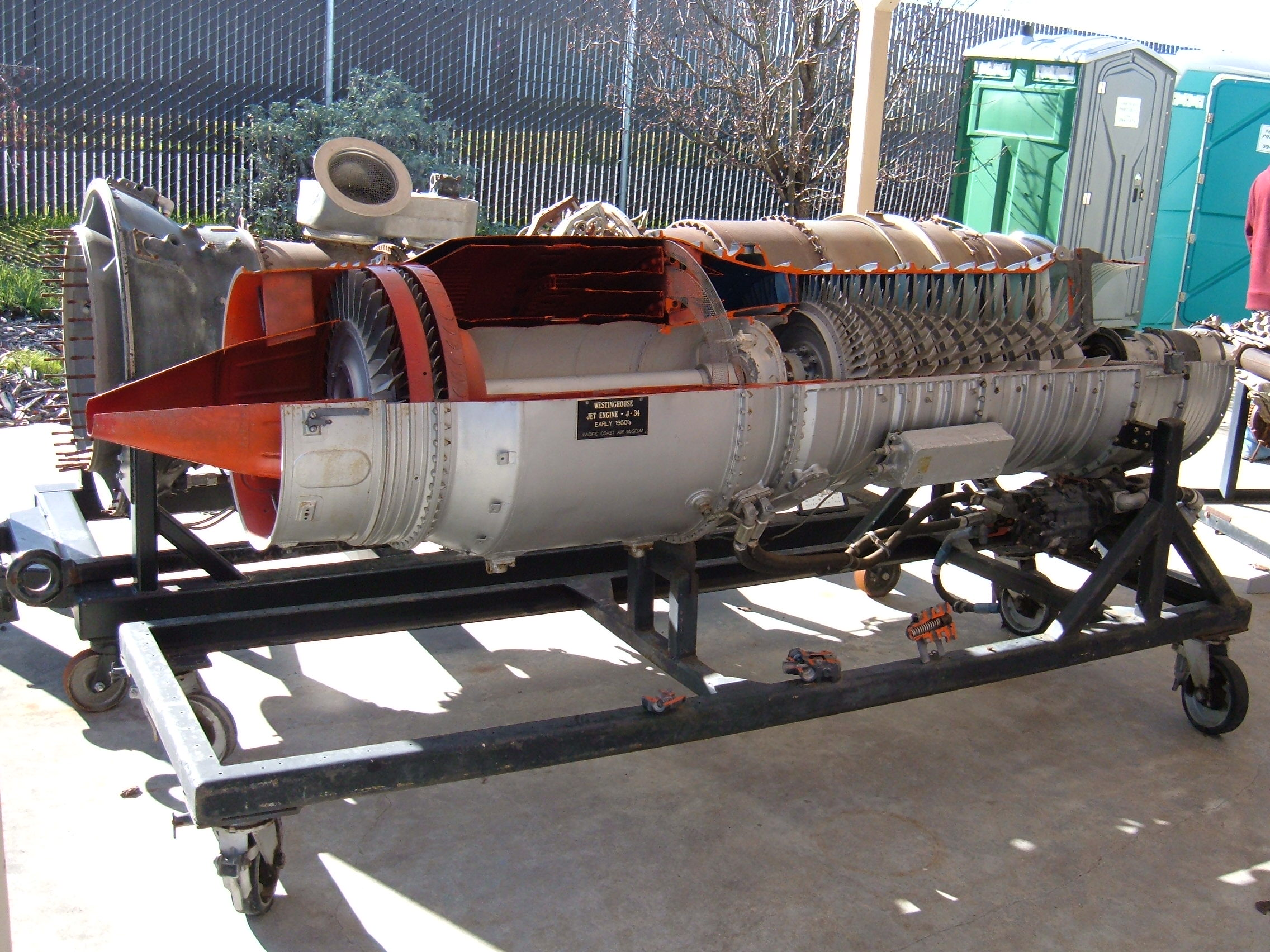 An early 1950s Westinghouse J34 turbojet engine on display at the Pacific Coast Air Museum in Santa Rosa, California.